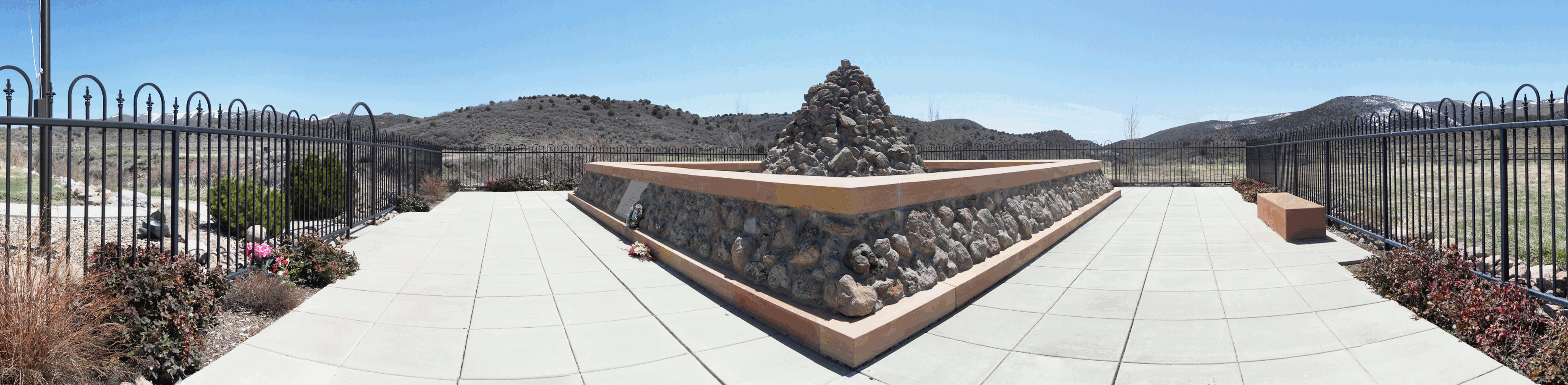 A panoramic view of the 1999 Monument and cairn replica in Mountain Meadows, Utah. The monument was built for the victims of the Mountain Meadows massacre.